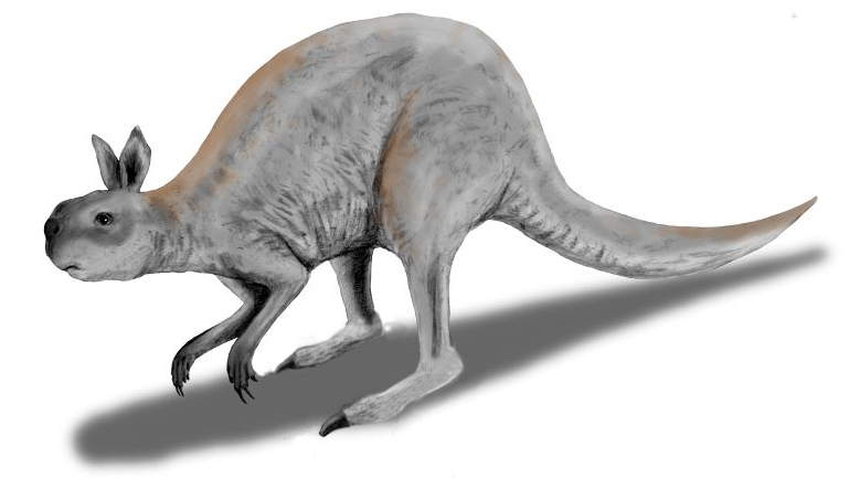 Procoptodon goliah, the giant short-faced kangaroo that lived during the Pleistocene in Australia, pencil drawing, digital coloring